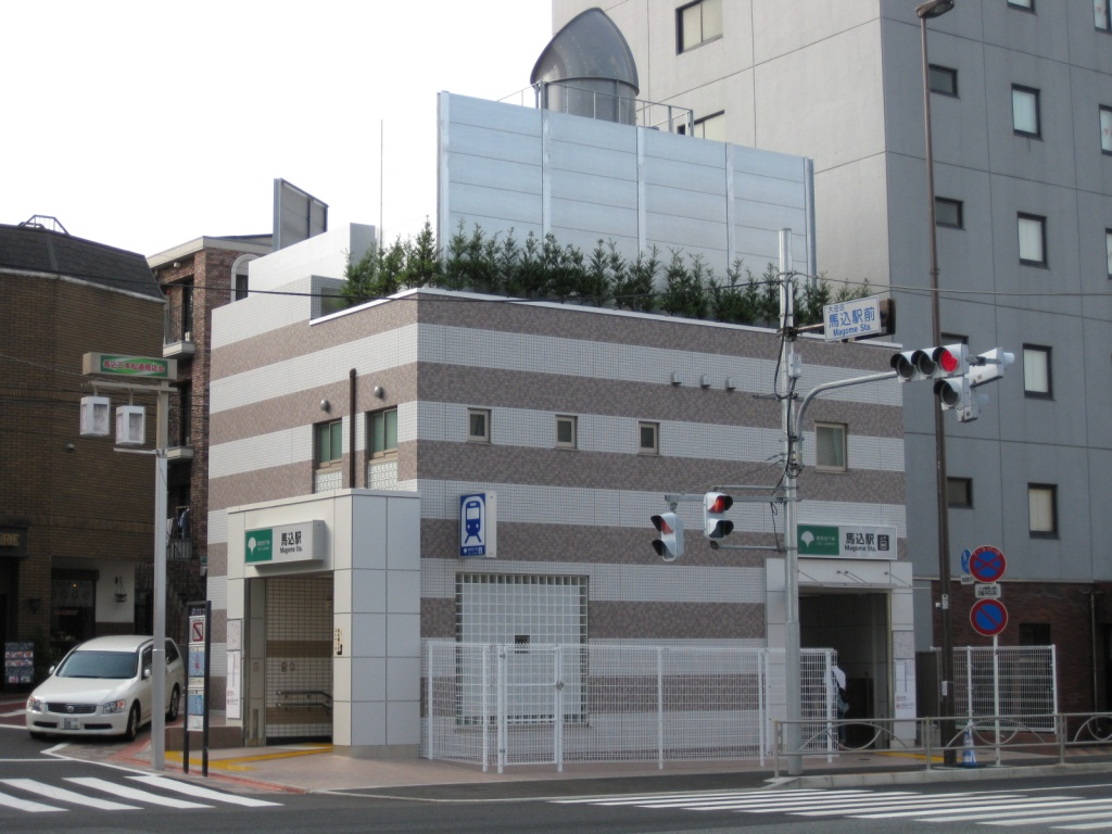 ToeiSubway-MagomeStation-A3exit,sep-2010,Oota-city,Tokyo,Japan